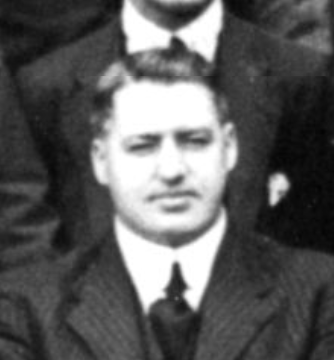 Portrait taken in 1921 of Ted Theodore, Premier of Queensland